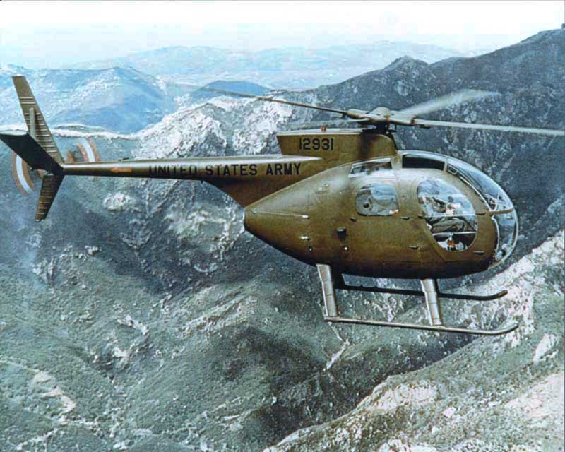 Hughes OH-6 Cayuse helicopter in flight.